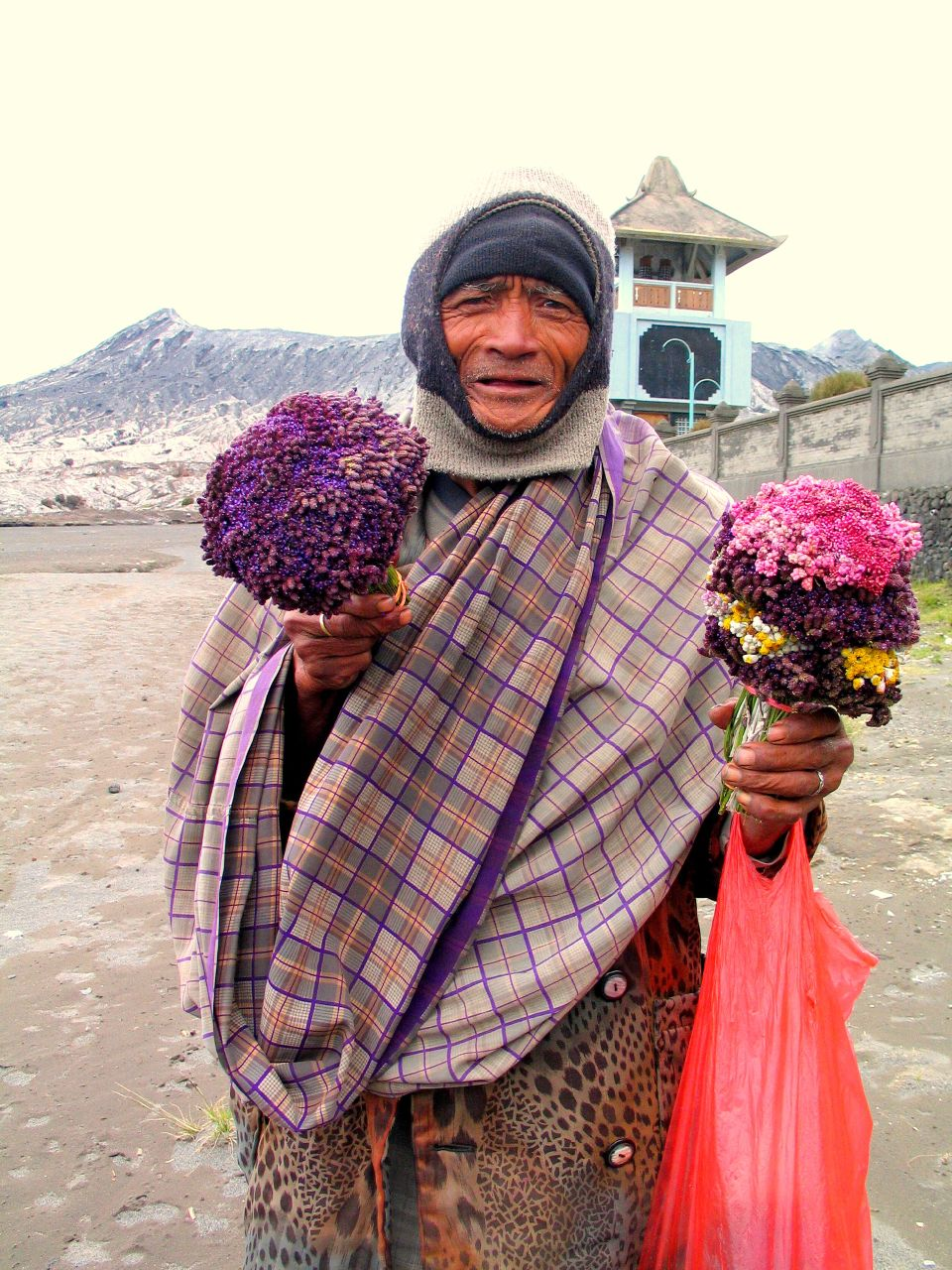 A person is selling Anaphalis javanica (Javanese Edelweiss) in Mount Bromo.